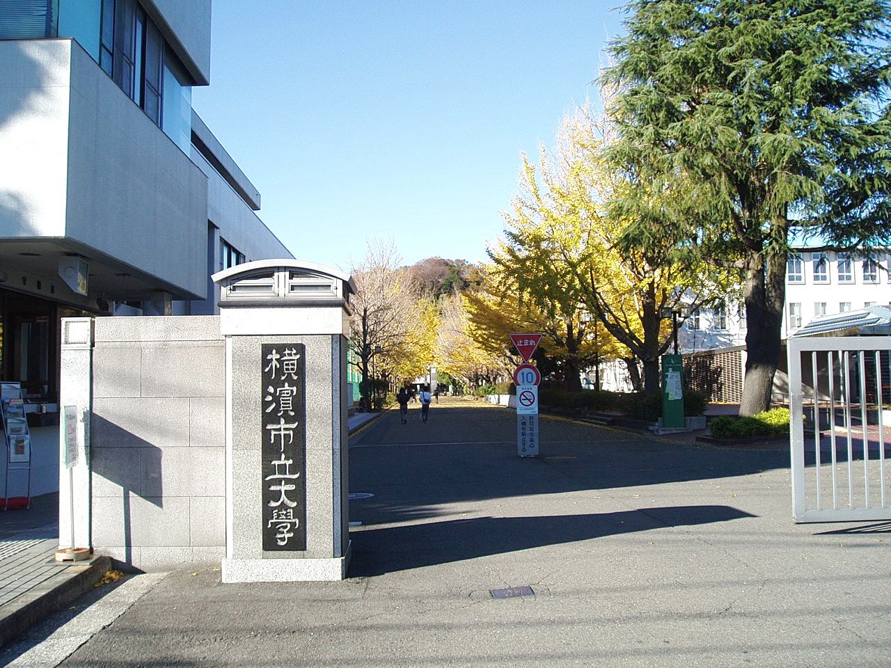 The main gate of Kanazawa Hakkei Campus, Yokohama City University, located in Kanazawa-ku, Yokohama, Kanagawa, Japan.